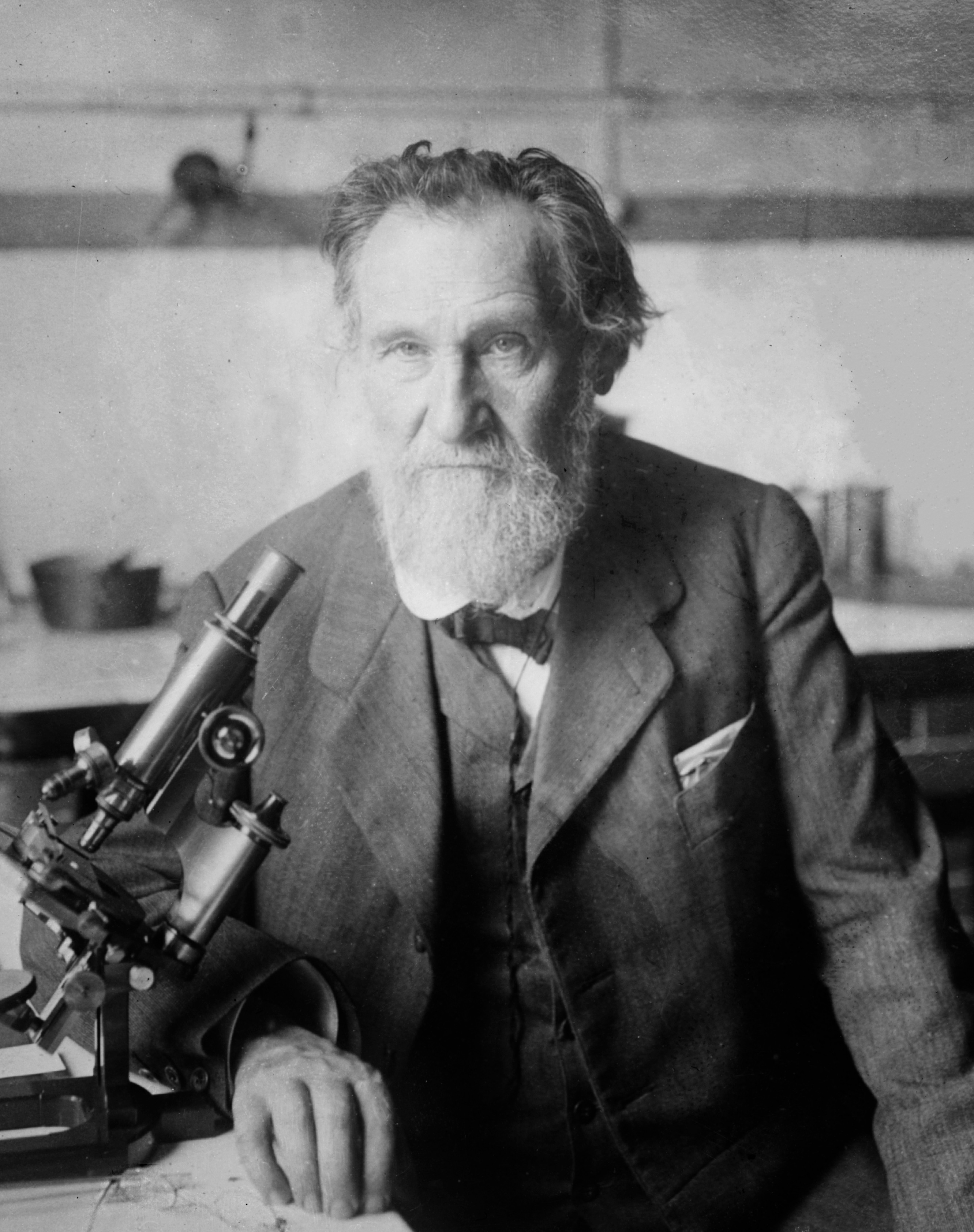 Bain News Service,, publisher. Elie Metchnikoff [between ca. 1910 and ca. 1915] 1 negative : glass ; 5 x 7 in. or smaller. Notes: Title from unverified data provided by the Bain News Service on the negatives or caption cards. Forms part of: George Grantham Bain Collection (Library of Congress). Format: Glass negatives. Repository: Library of Congress, Prints and Photographs Division, Washington, D.C. 20540 USA, General information about the Bain Collection is available at Persistent URL: Call Number: LC-B2- 2901-8